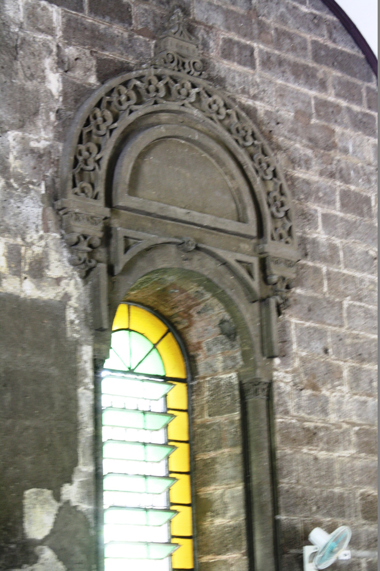 The window design.